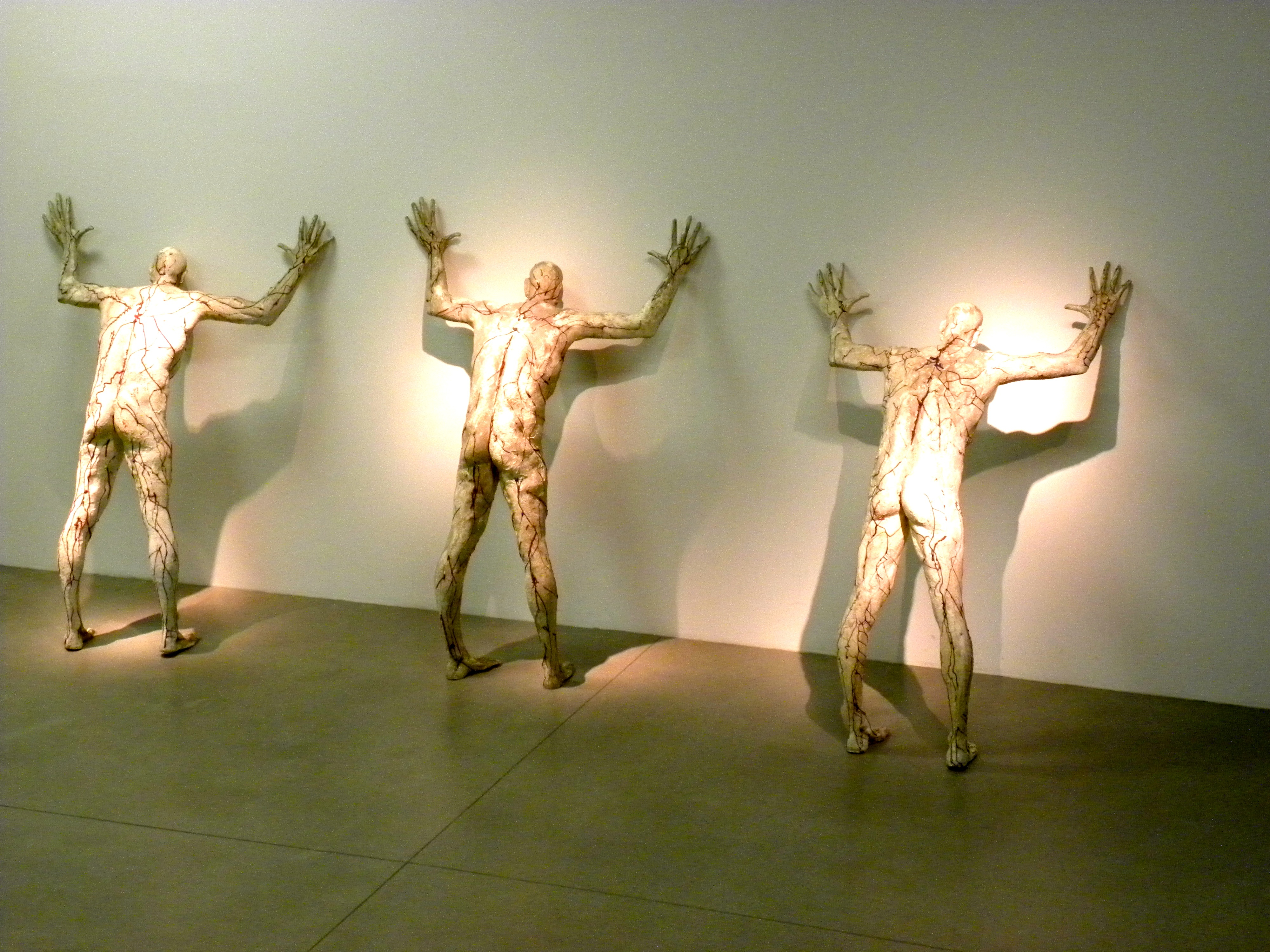 Statues in the Zagreb Museum of Contemporary Art.